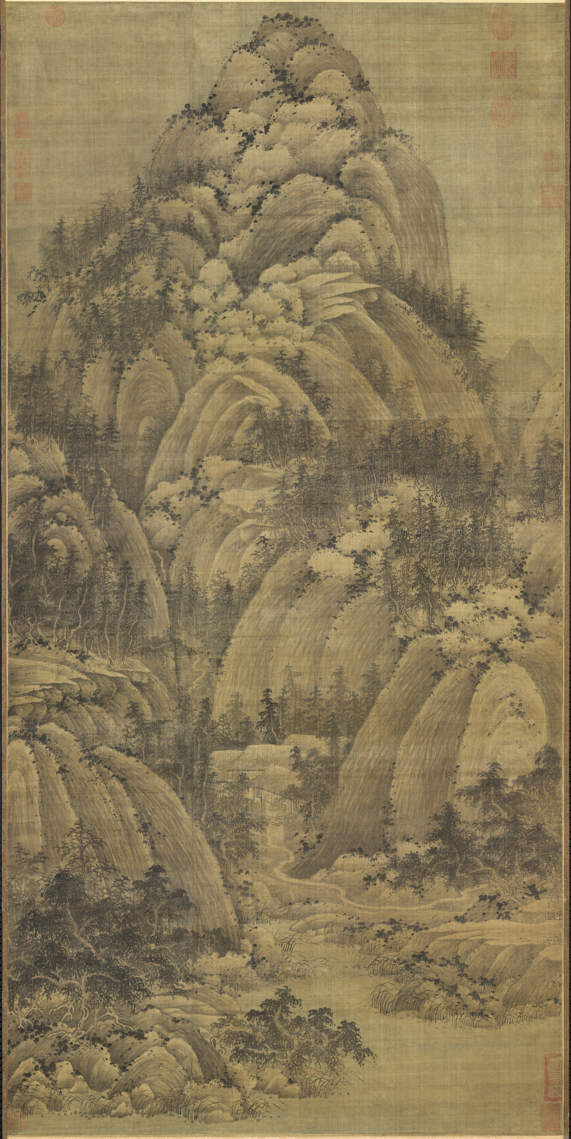 Juran._Seeking_the_Tao_in_Autumn_Mountains._Palace_museum,_Tapei.10_cent